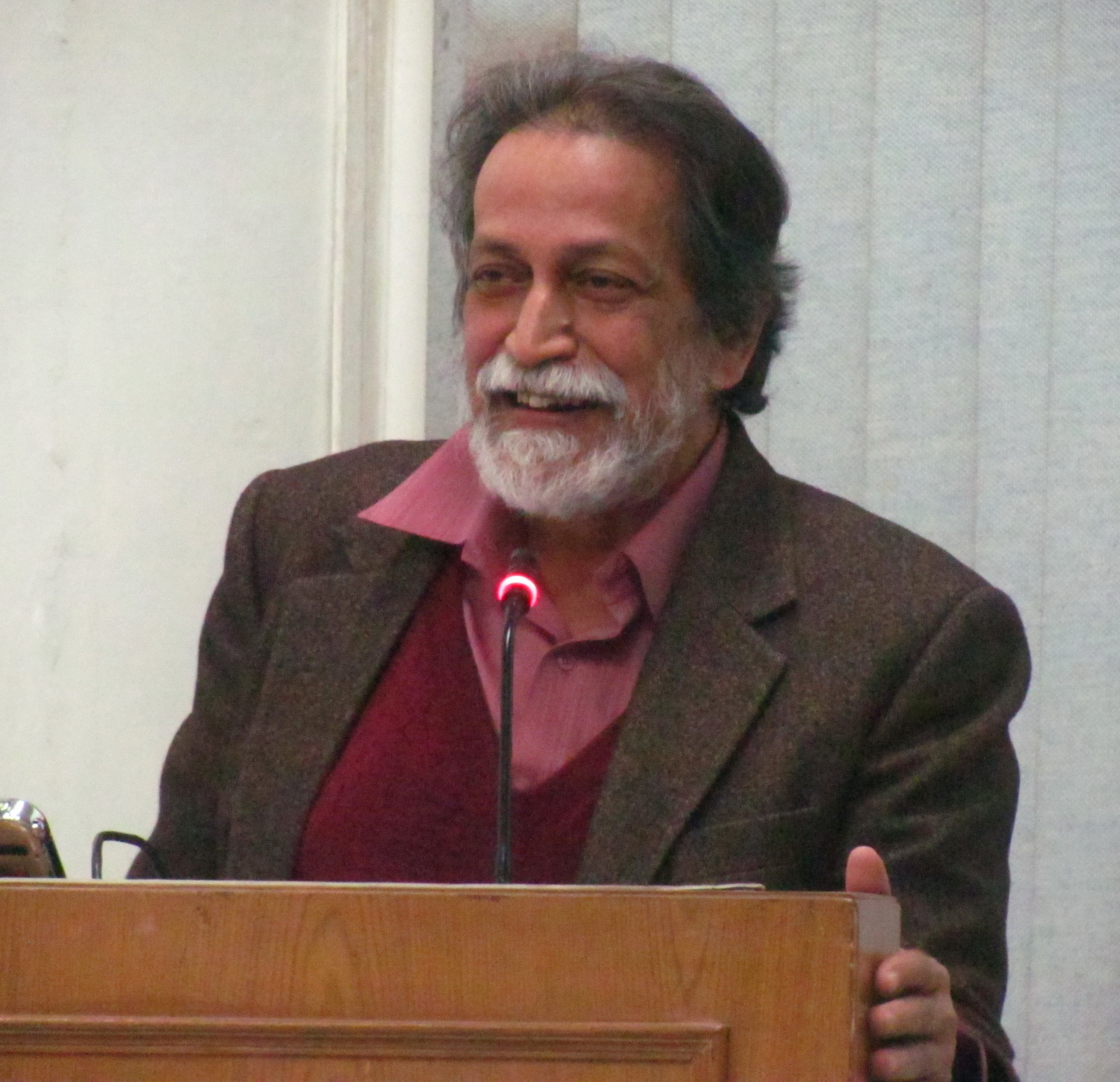 Prabhat Patnaik, delivering the valedictory address at the Conference held to celebrate 40 years of the Centre for Economic Studies and Planning, JNU.